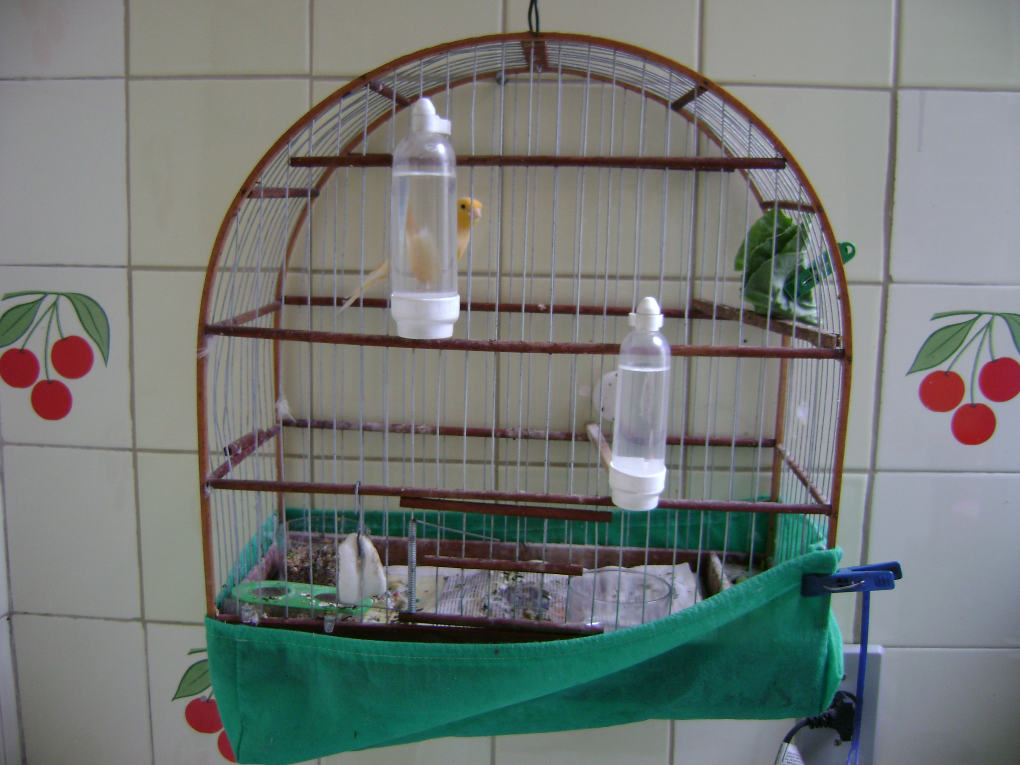 Gaiola para passarinho.